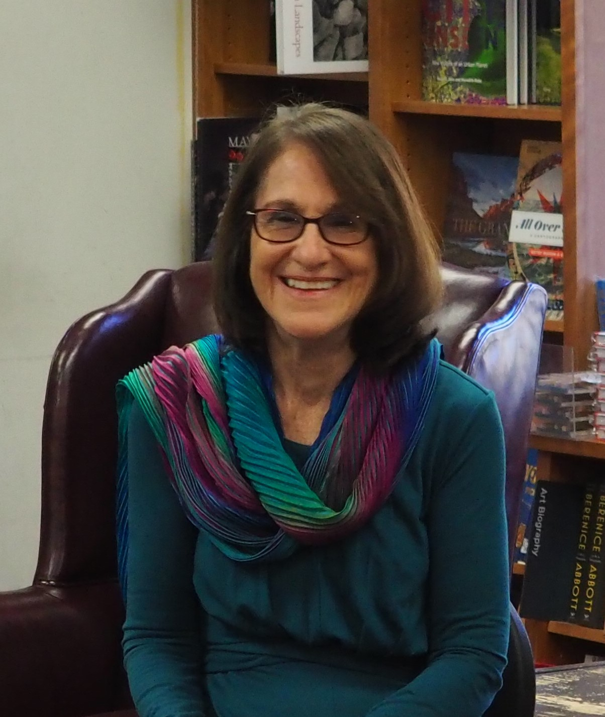 reading at Politics and Prose, Washington, D.C.